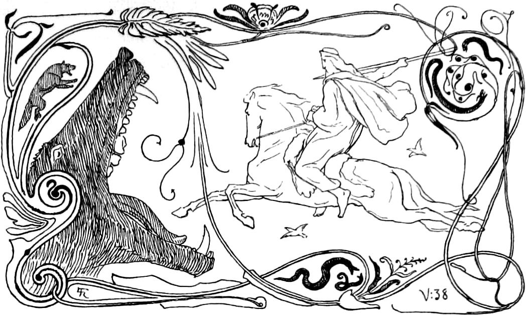 Odin rides forth to battle against Fenrir during Ragnarök.